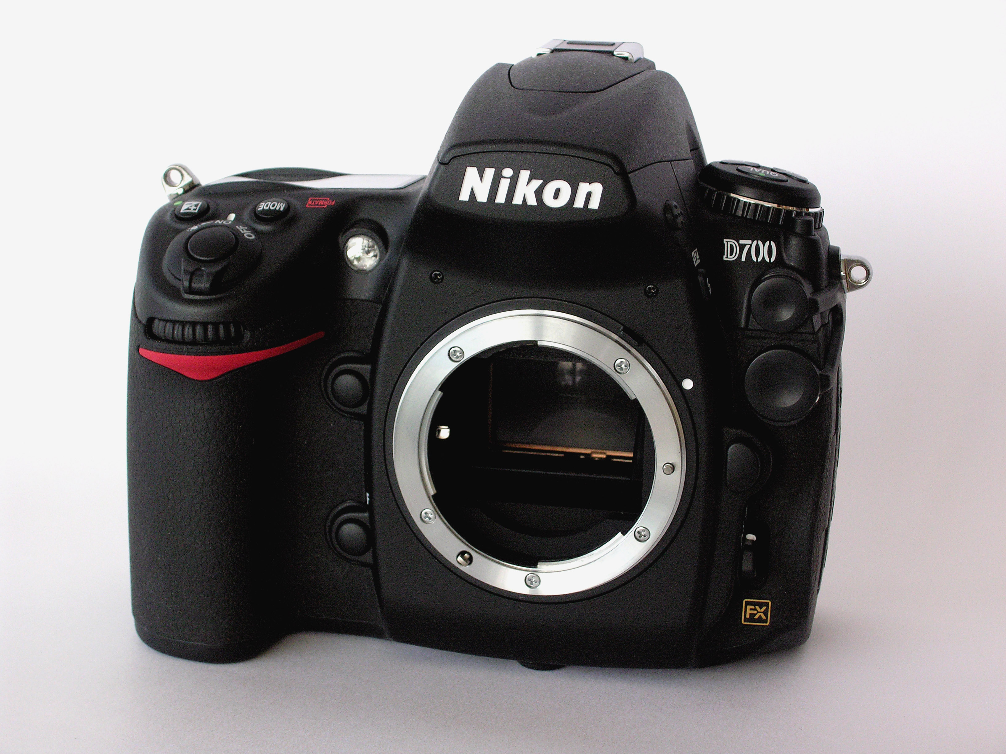 Nikon D700, body front view